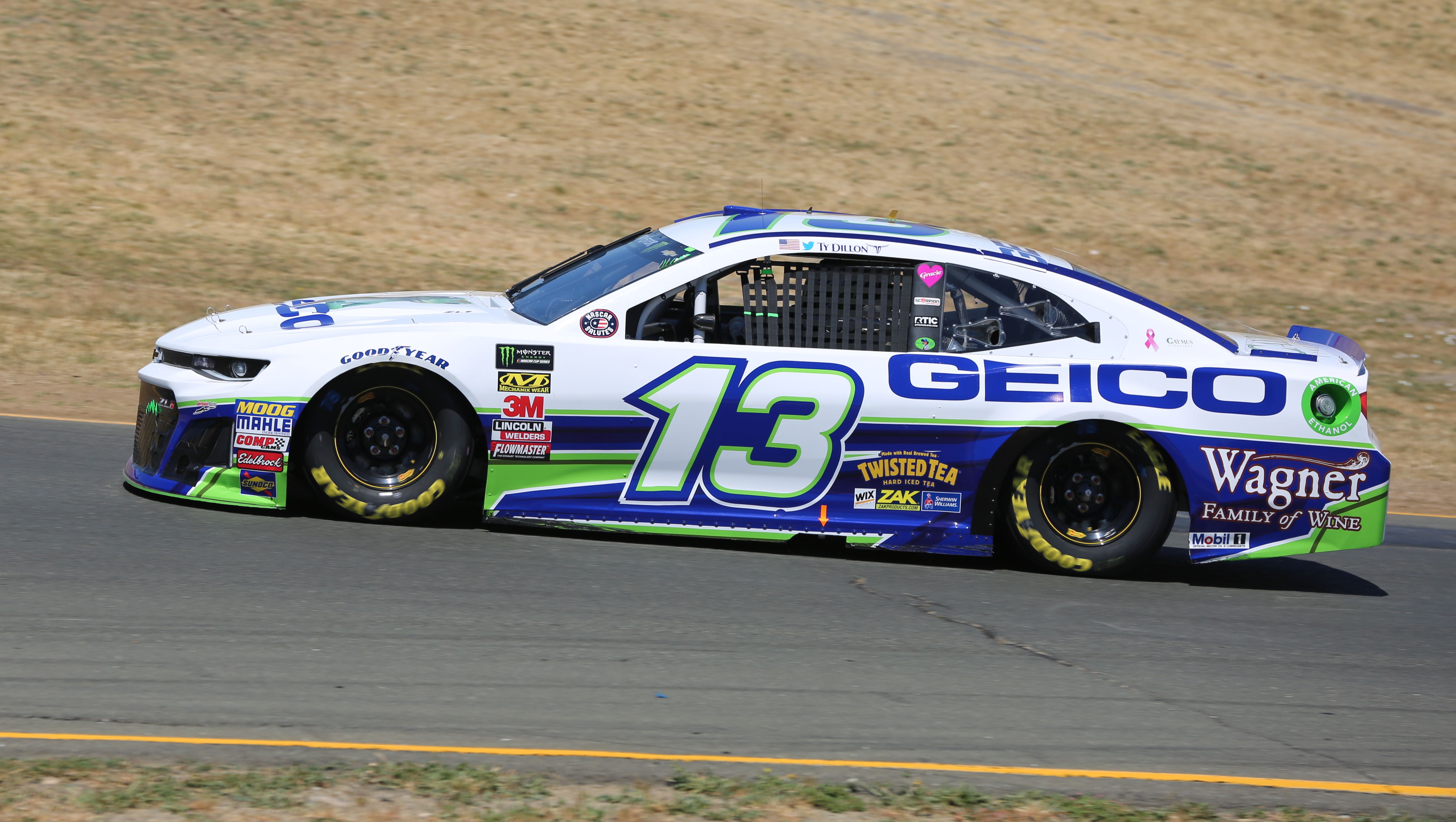 Ty Dillon's No. 13 GEICO Chevrolet at Sonoma Raceway in 2018